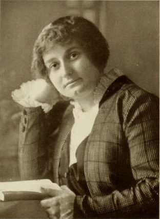 Photo from Notable Women of St. Louis, 1914, credited to Gerhard Sisters Notable women of St. Louis, 1914; by Johnson, Anne (André) "Mrs. Charles P. Johnson", 1871- Publication date 1914 Topics Women Publisher [St. Louis, Woodward Collection library_of_congress; americana Digitizing sponsor Sloan Foundation Contributor The Library of Congress Language English Call number 273387 Camera Canon 5D Identifier notablewomenofst00john Identifier-ark ark:/13960/t0tq66z8n Identifier-bib 00145723176 Ocr ABBYY FineReader 8.0 Openlibrary_edition OL6566619M Openlibrary_work OL7734088W Pages 522 Possible copyright status NOT_IN_COPYRIGHT Ppi 300 Scandate 20090203222701 Scanfactors 4 Scanner Scanningcenter capitolhill Full catalog record MARCXML